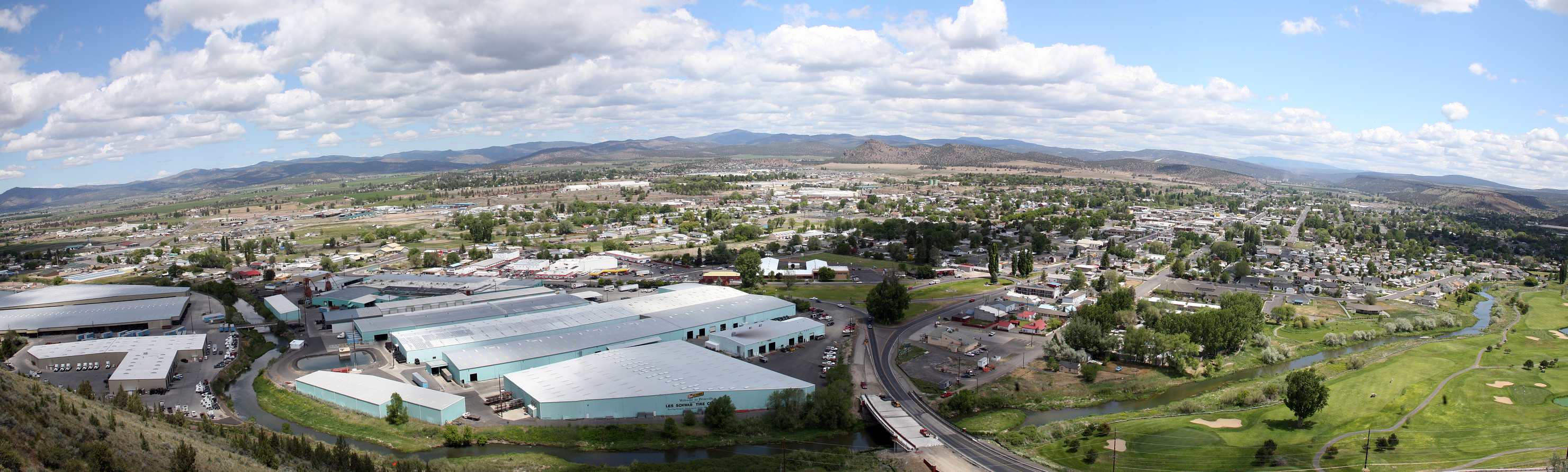 A panoramic photo of Prineville, Oregon made from 3 segments. The photos were taken from the lookout point in Ochoco State Park.